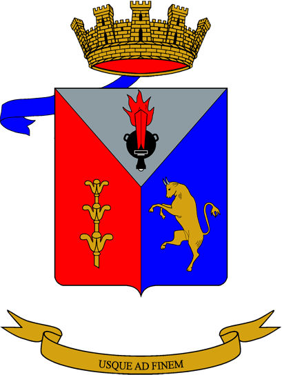 Coat of Arms of the 32° Engineer Battalion; Italian Army.